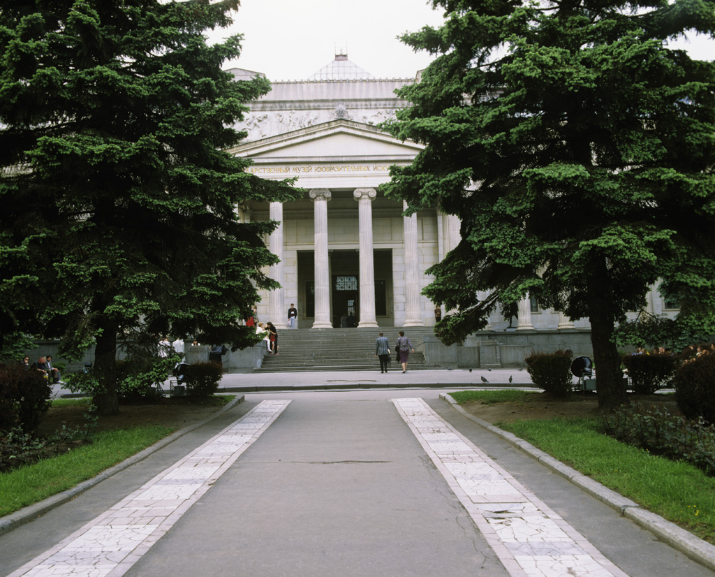 “Pushkin Museum”. The Pushkin State Museum of Fine Arts.